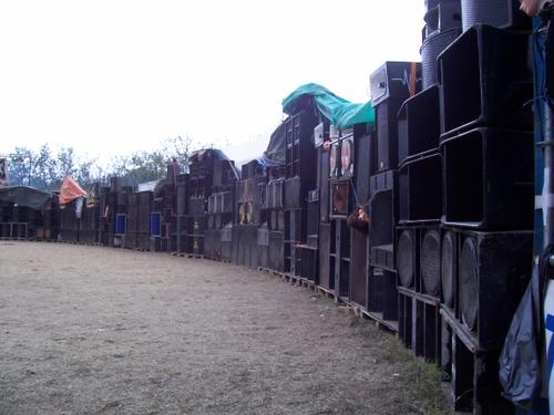 A Free Party Wall Sound in Italy.